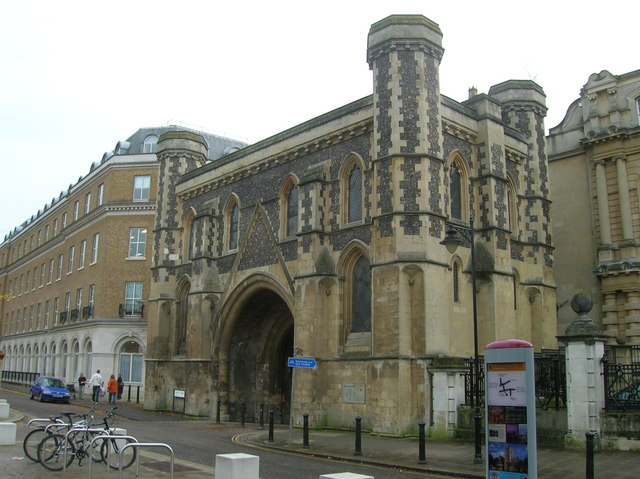 Reading Abbey Inner Gatehouse, The Forbury The most intact part of Reading Abbey, however this was built in the fifteenth century and was not part of the major twelfth century structure. It is situated adjacent (east) of the Old Shire Hall